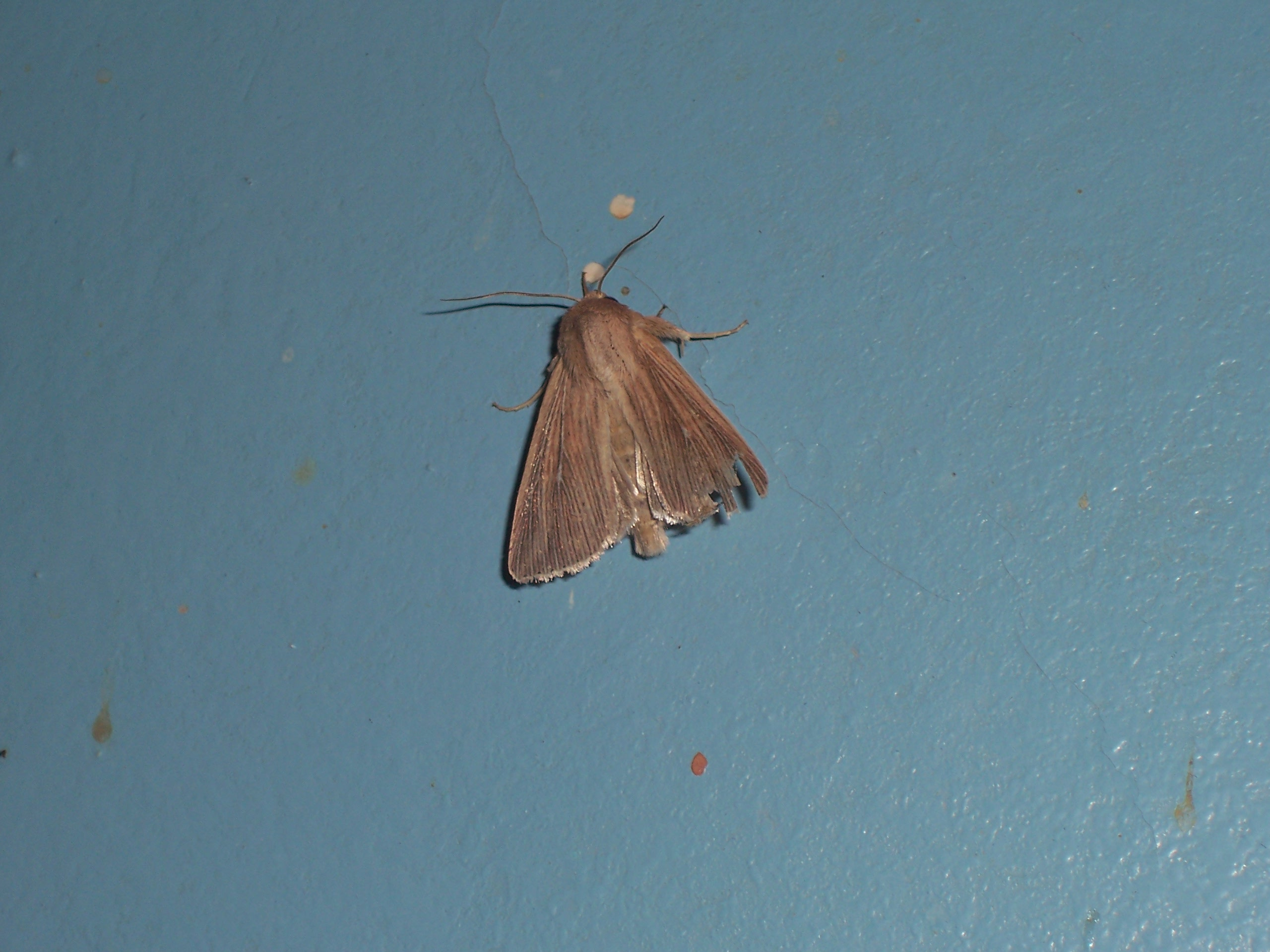 A butterfly, Mythimna congrua, picture taken in Tbilissi, Georgia